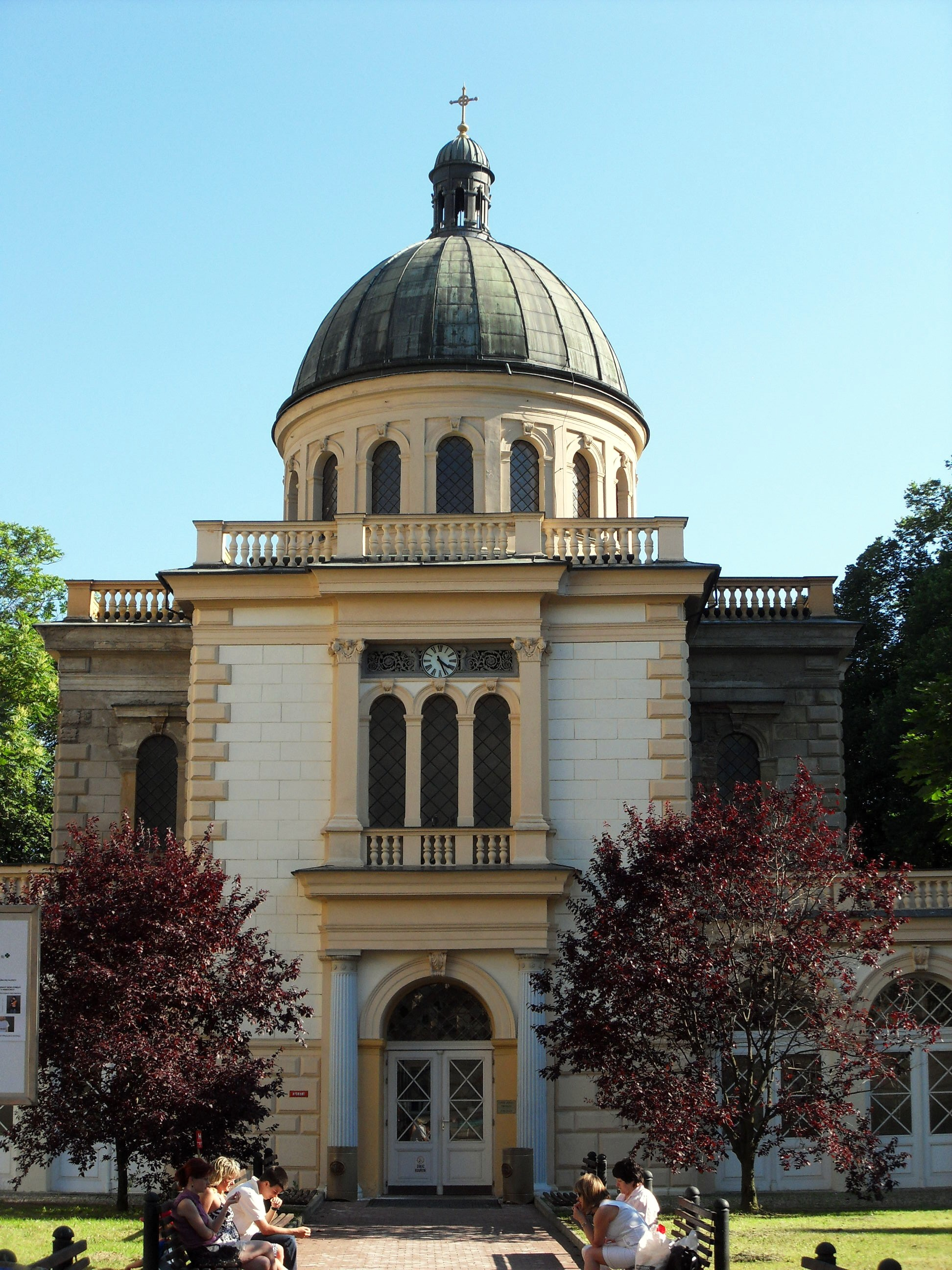 Saint Anne chapel, Brno, Czech Republic